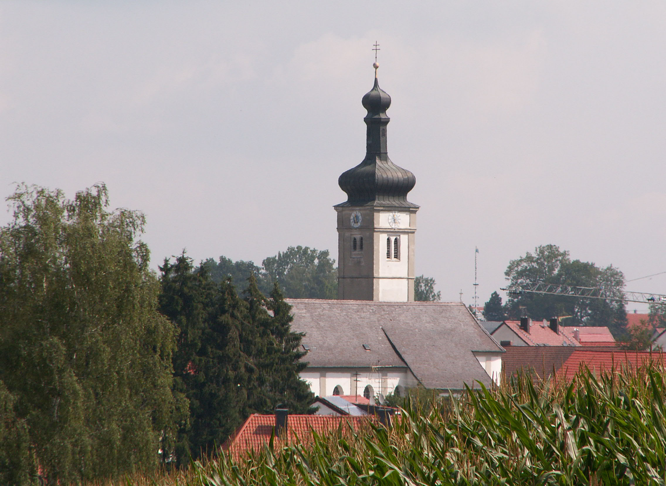 Kirche in Pfaffenhofen an der Glonn von Südwesten